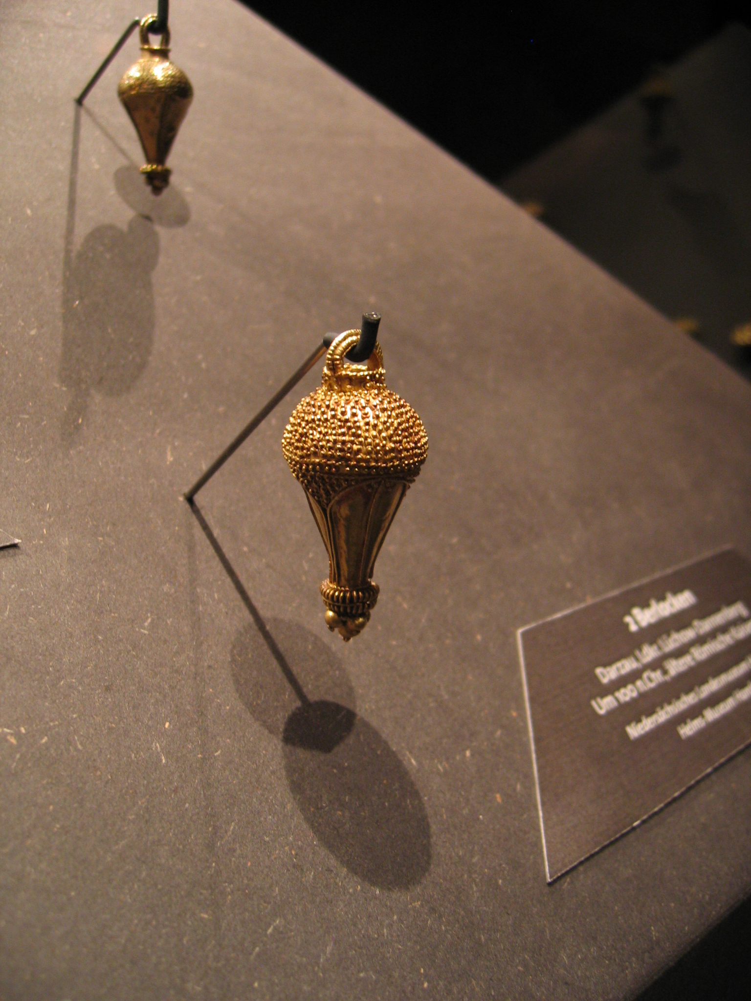 Two Berlocks from the graveyard Darzau, near Quarstedt, Parish Neu Darchau, Landkreis Lüchow-Dannenberg, Lower-Saxony, Germany. Dating around 125 AD. Archaeological Museum Hamburg, Germany.